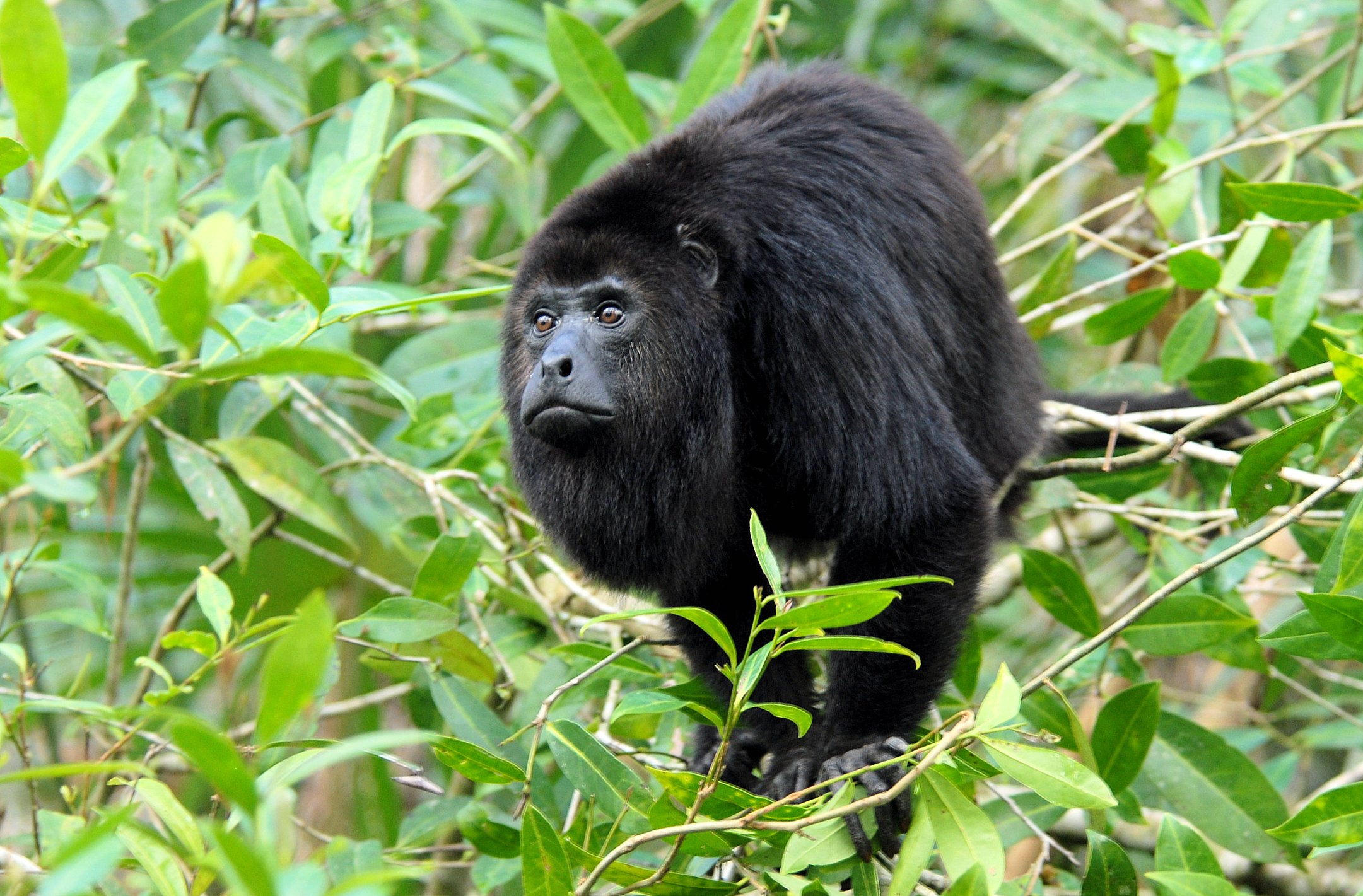 Guatemalan black howler (Alouatta pigra) in Belize Zoo.